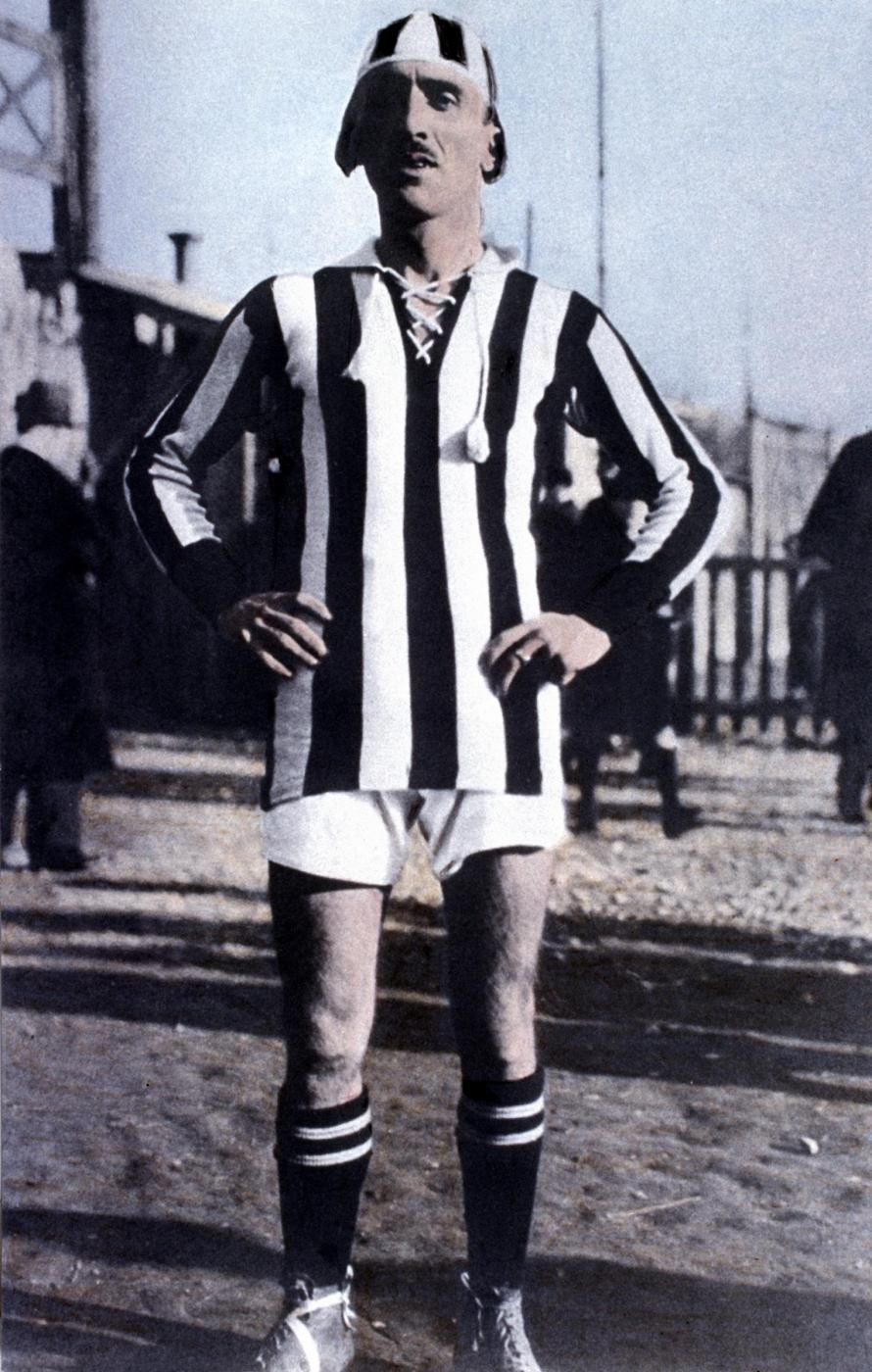 Italian footballer Carlo Bigatto with Juventus FC between 1910s and 1930s.